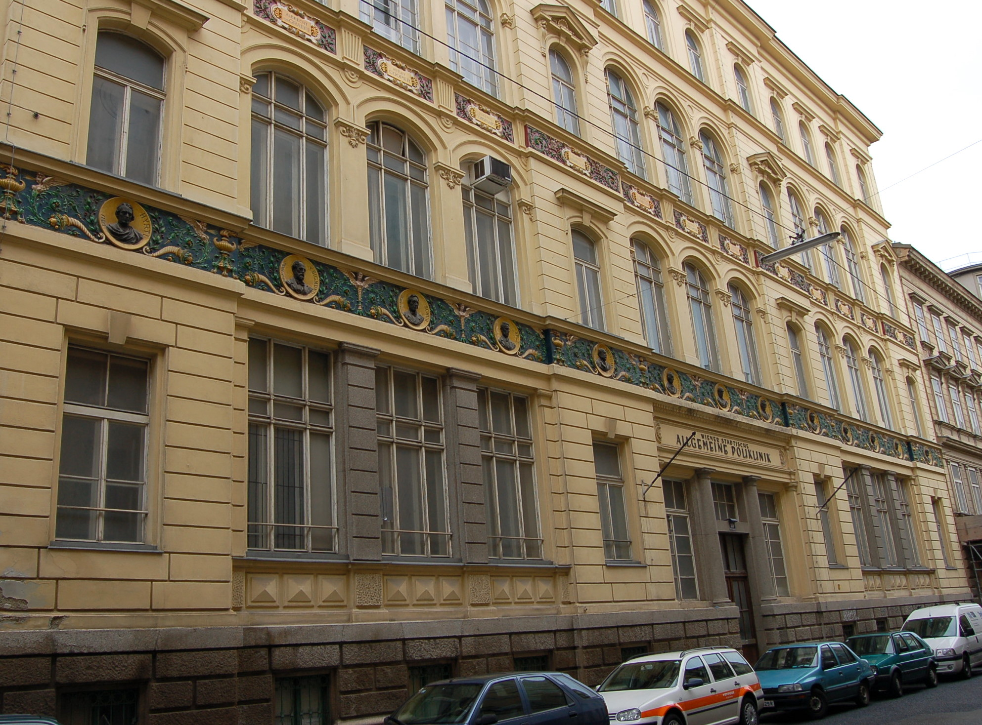 The building of the former Allgemeine Poliklinik, a hospital located at Mariannengasse 10, Vienna's 9th district